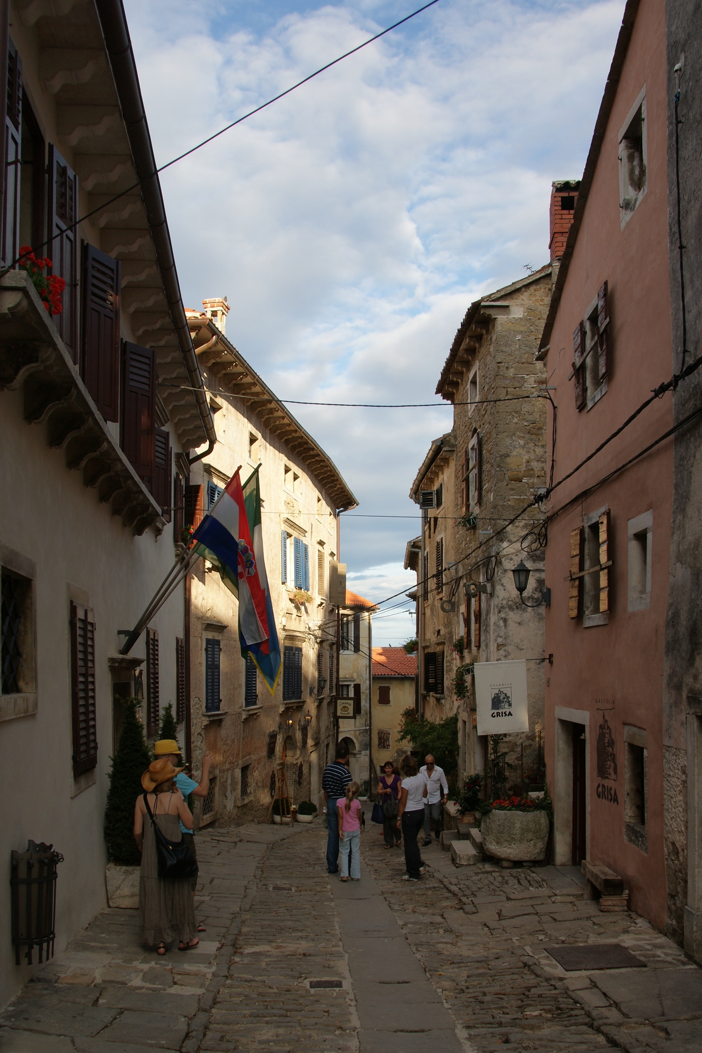 Grožnjan, Istria